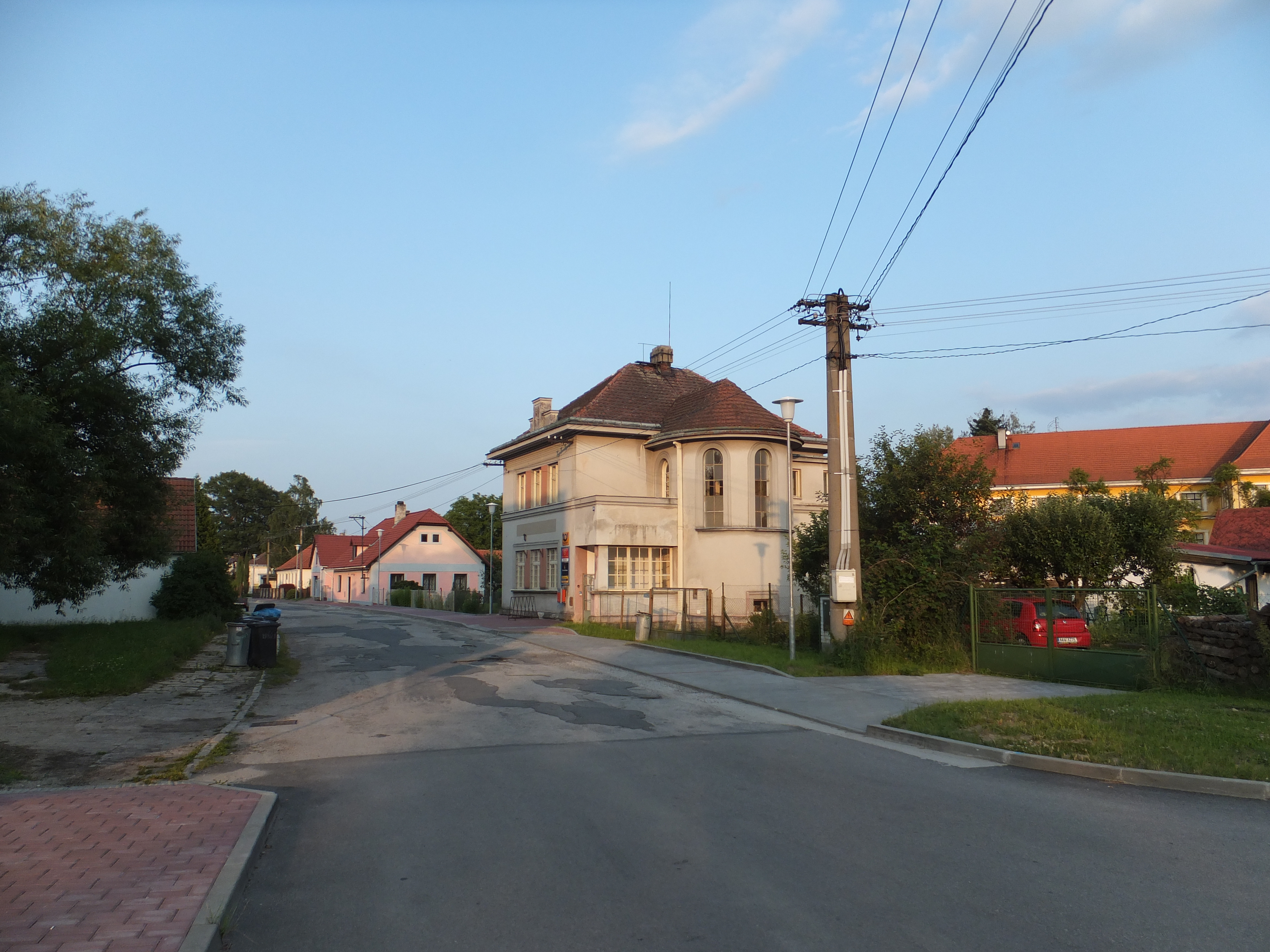 Rapšach - the street to Malý Londýn (Little London) with the post office (in the middle of the oicture)